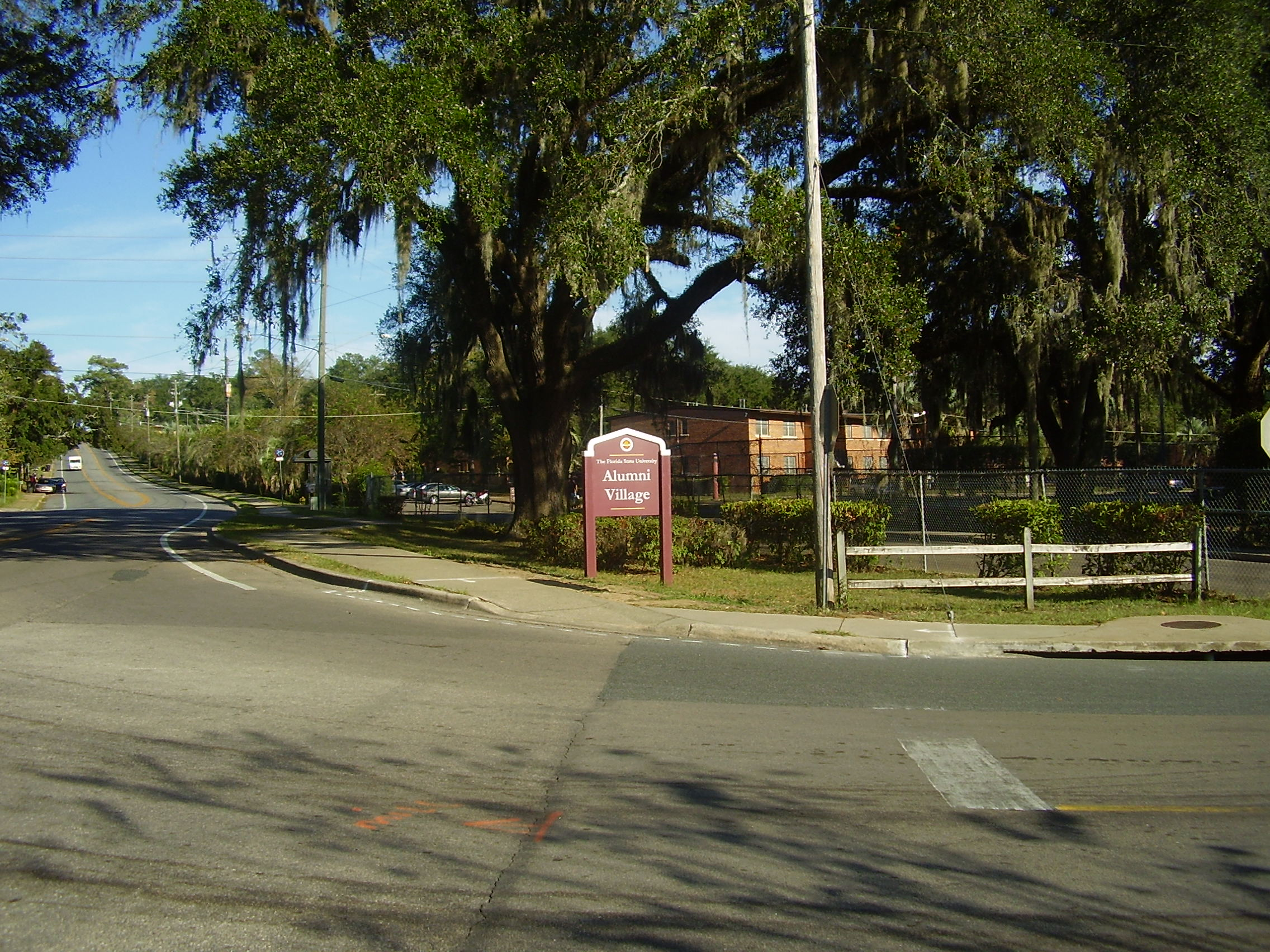 Alumni Village (AV) main entrance